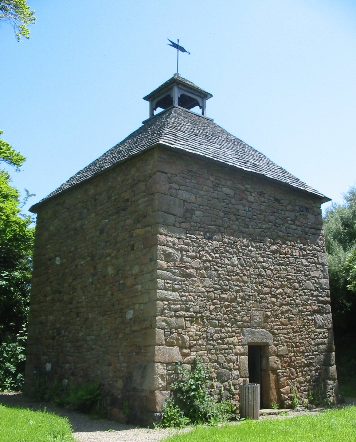 Colombier (dovecote) at Hamptonne in Jersey Photo taken by Man vyi with Canon PowerShot A40 on 11/6/2005